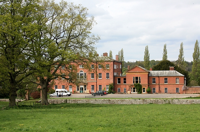 Canon Frome court Taken from the footpath from the church to "The Barn".